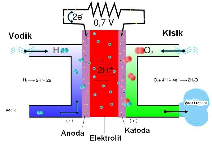 Sheme of a fuel cell